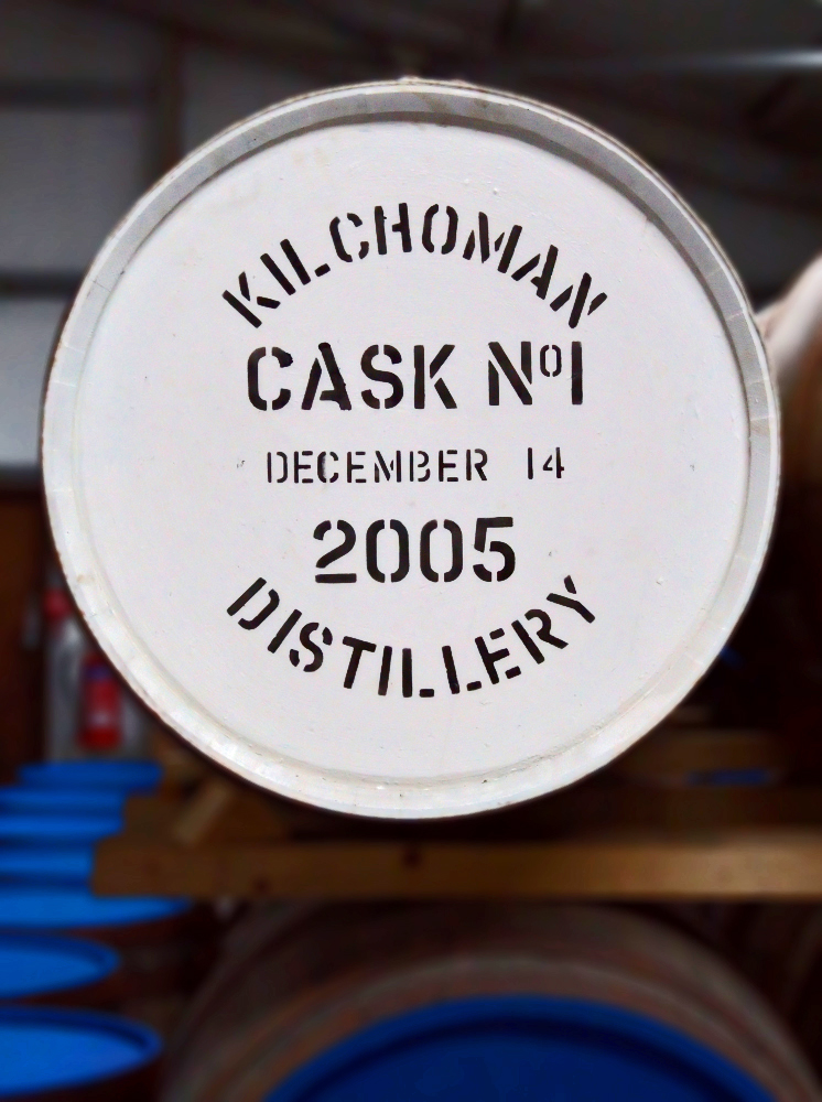 Kilchoman - a new Islay whisky